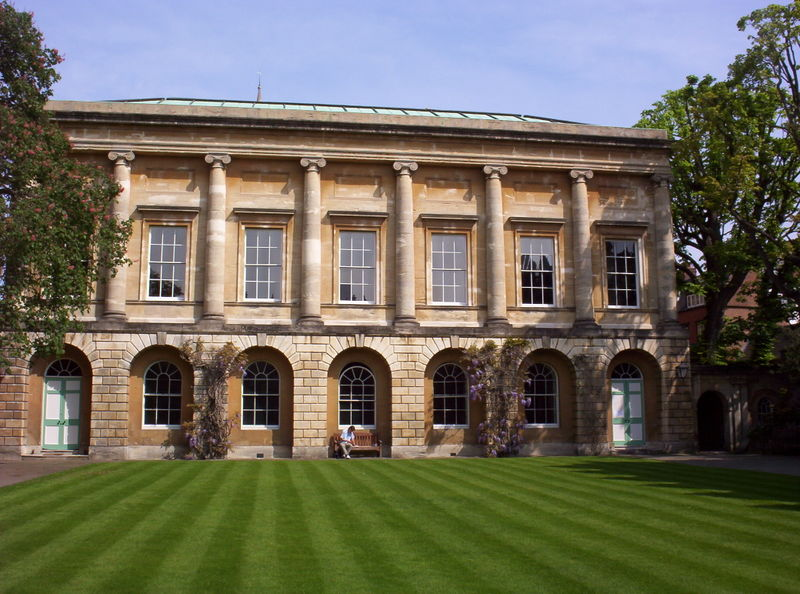 Photograph of the Wyatt Building, Oriel College, Oxford.